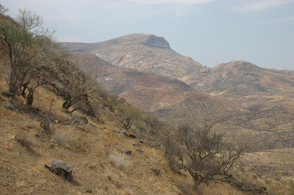 Erongo Massif